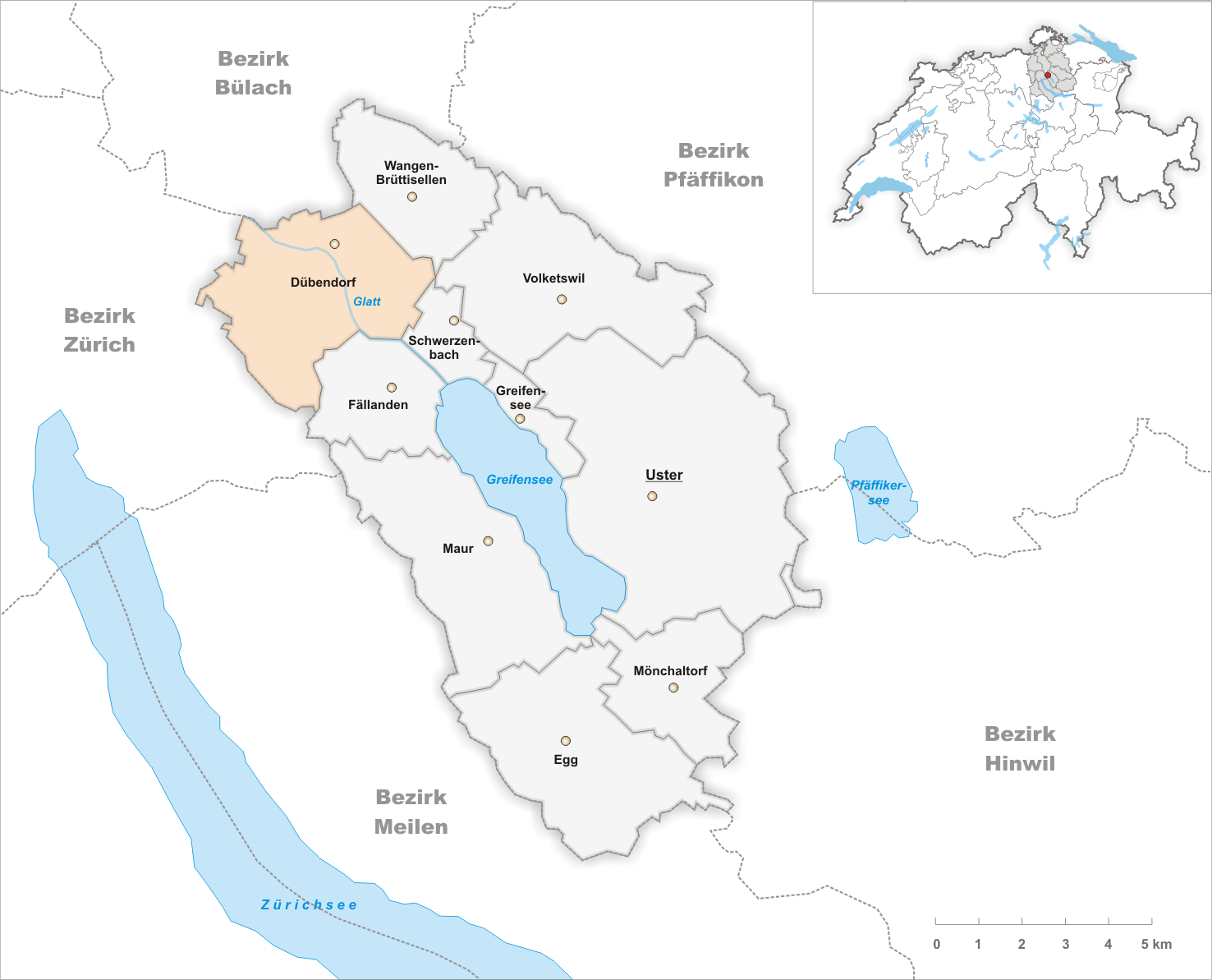 Municipality Dübendorf